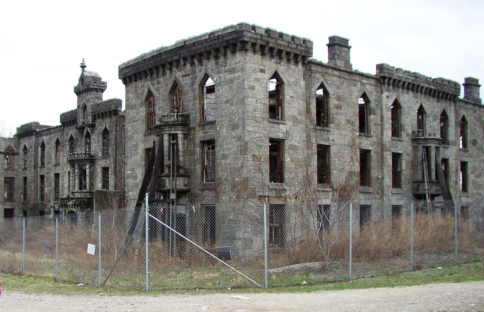 Ruins of the Renwick Smallpox Hospital on Roosevelt Island